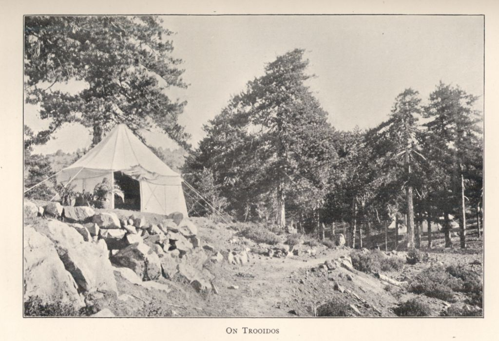 Camping tent set up in conifers and rocky terrain, Troödos Mountains in west-central Cyprus. 1900 Black-and-white photograph.